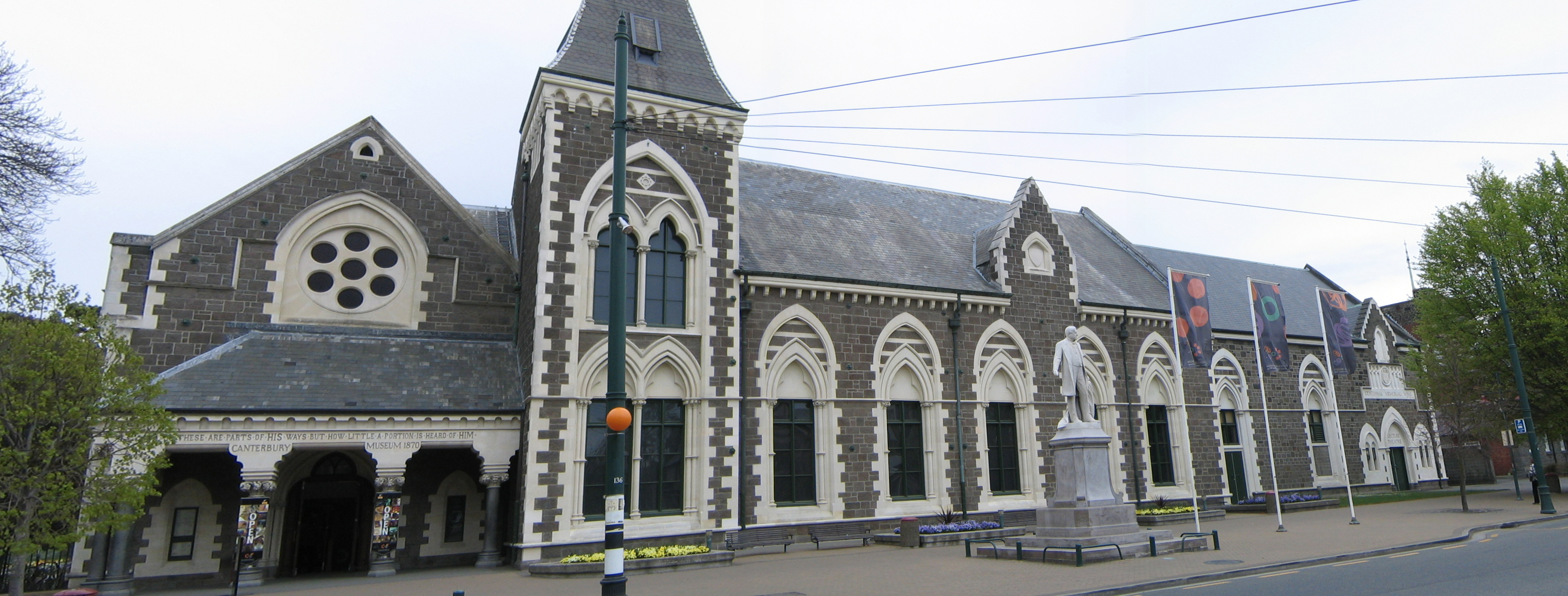 Canterbury Museum in New Zealand. New Zealand Historic Places Trust Register number: 290.